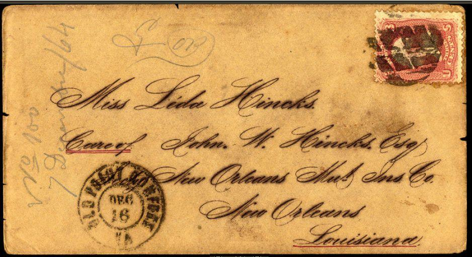 Confederate Flag of True mail, 1864 w/ Washington 3-cent) (1863 issue)